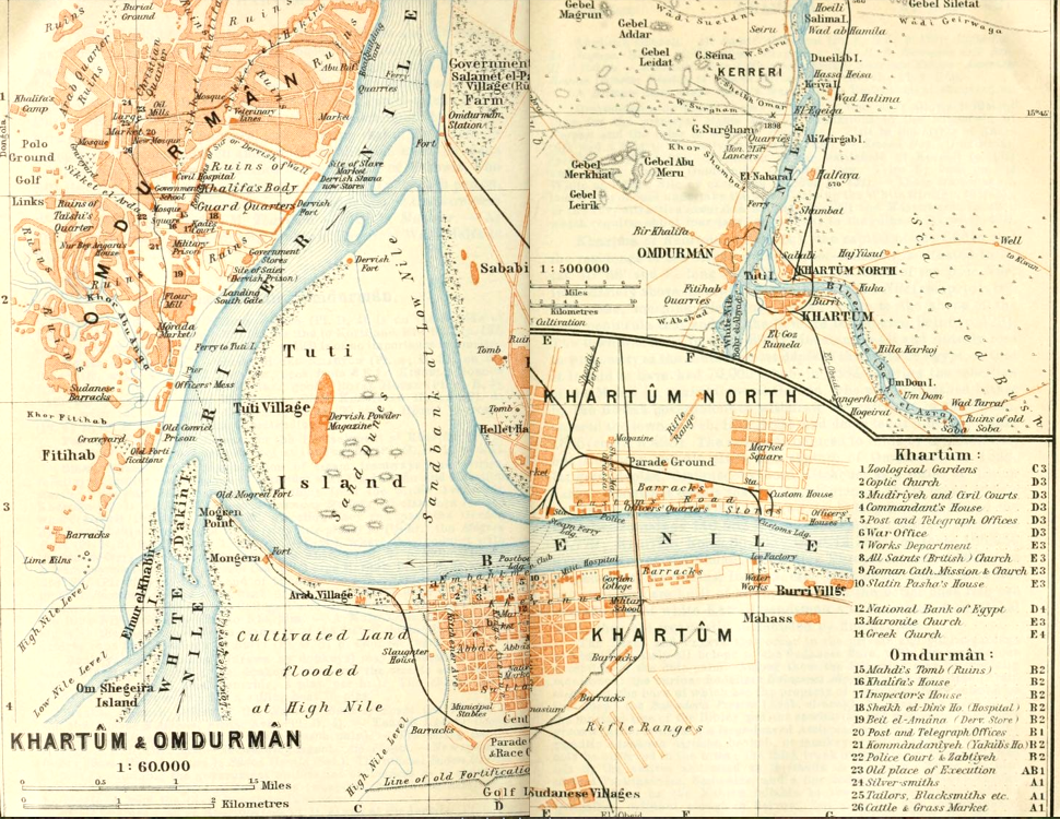 map of Khartoum and Omdurman, Sudan